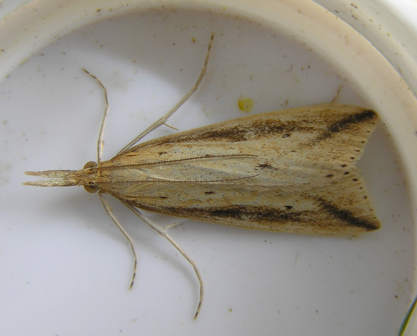 Donacaula forficella (Katlijk, the Netherlands)